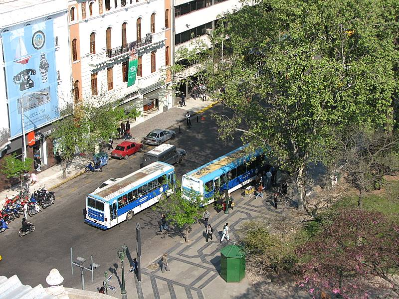 A street in Córdoba, Argentina, with the typical buses.